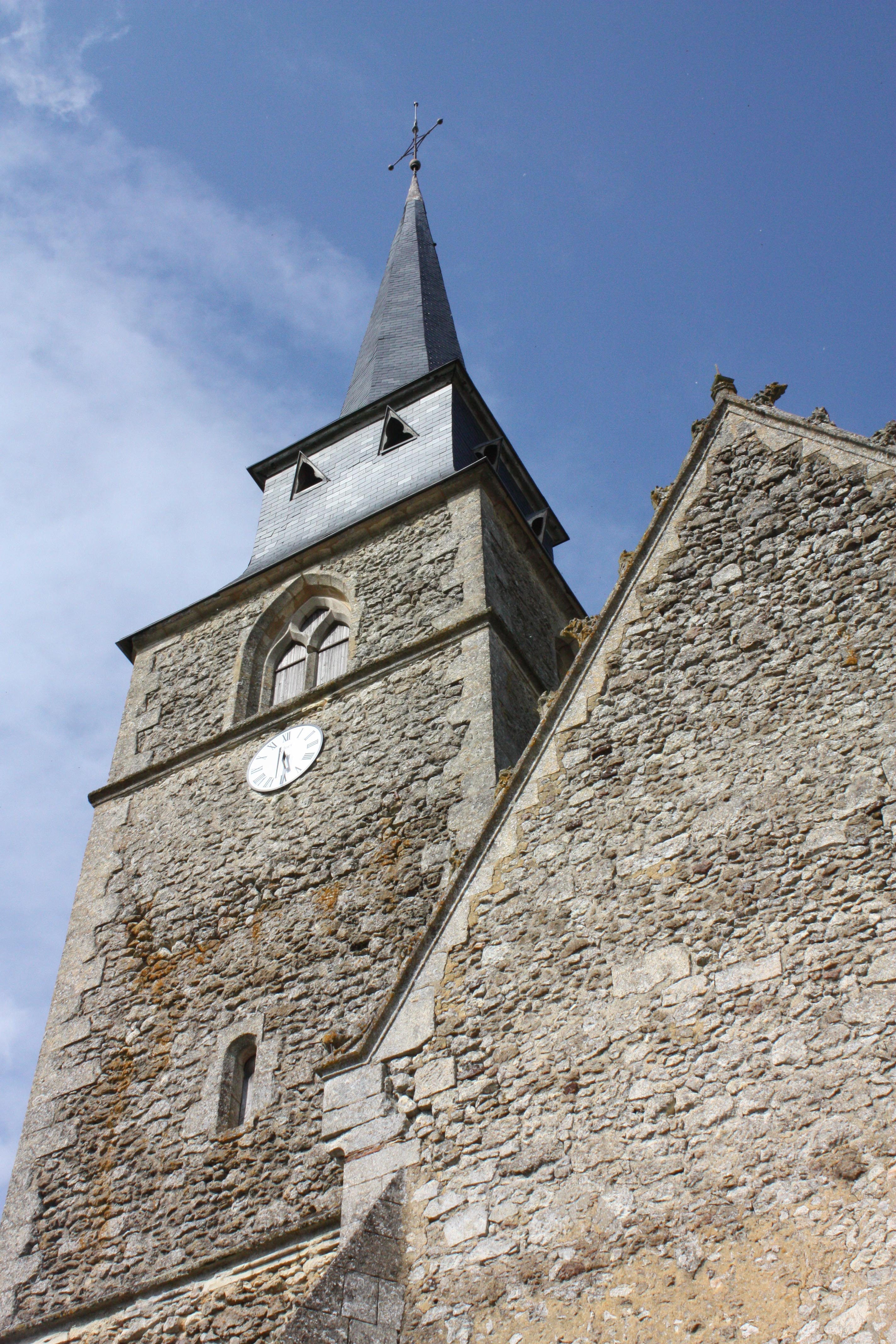 Church of St Ulphace, Sarthe